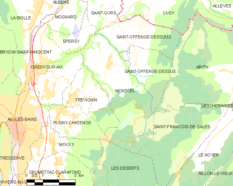 Map of French municipality